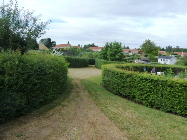 De Ovale Haver in Nærum, Rudersdal Municipality, Denmark